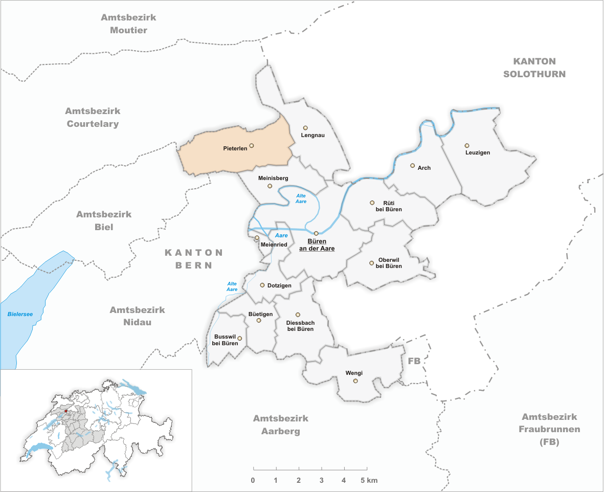 Municipality Pieterlen